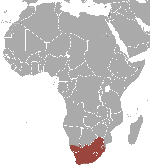 Scrub Hare (Lepus saxatilis) range